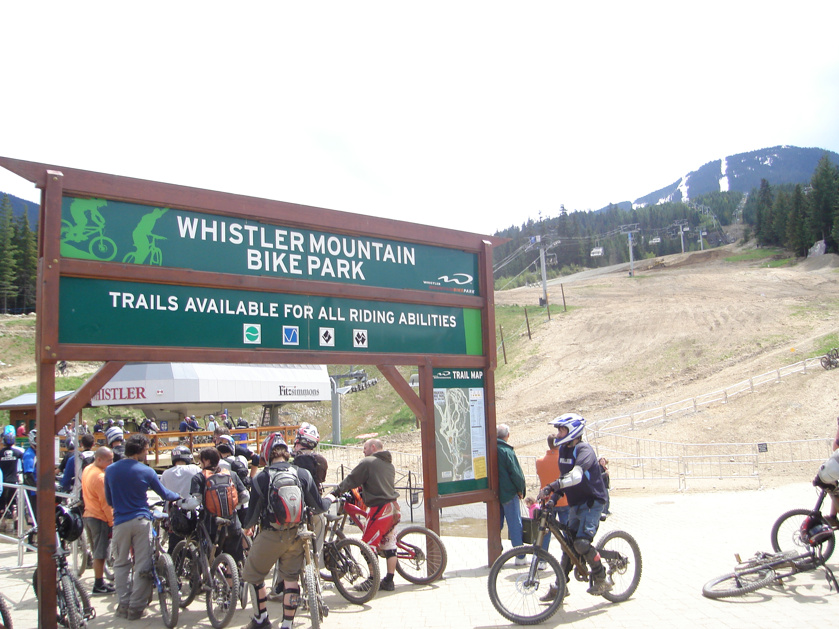 Bottom of the Fitzsimmons chairlift at the Whistler Mountain Bike Park This picture was taken in early season conditions, the Boneyard Slopestyle park was not yet built for the season. Bottom of the Fitzsimmons chairlift at the Whistler Mountain Bike Park This picture was taken in early season conditions, the Boneyard Slopestyle park was not yet built for the season.